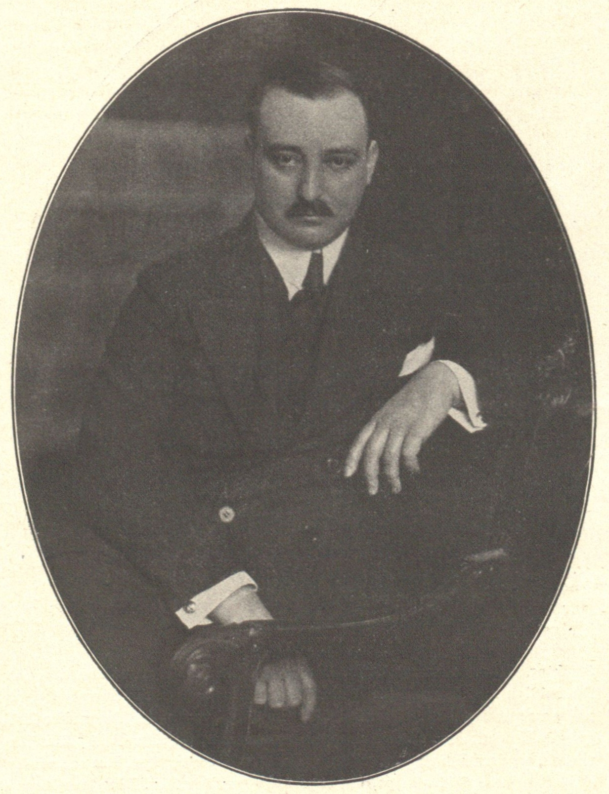 Alfred Bernau, German actor and theatre director